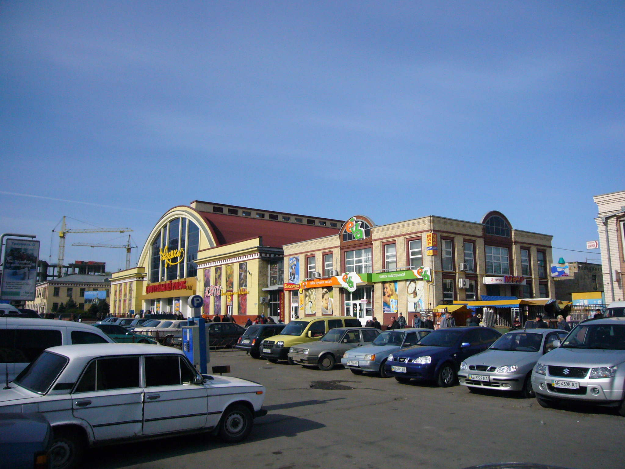 Central Market in Dnipropetrovsk, Ukraine